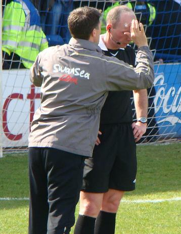 Football referee Mike Dean recieves treatment after being struck by a coin